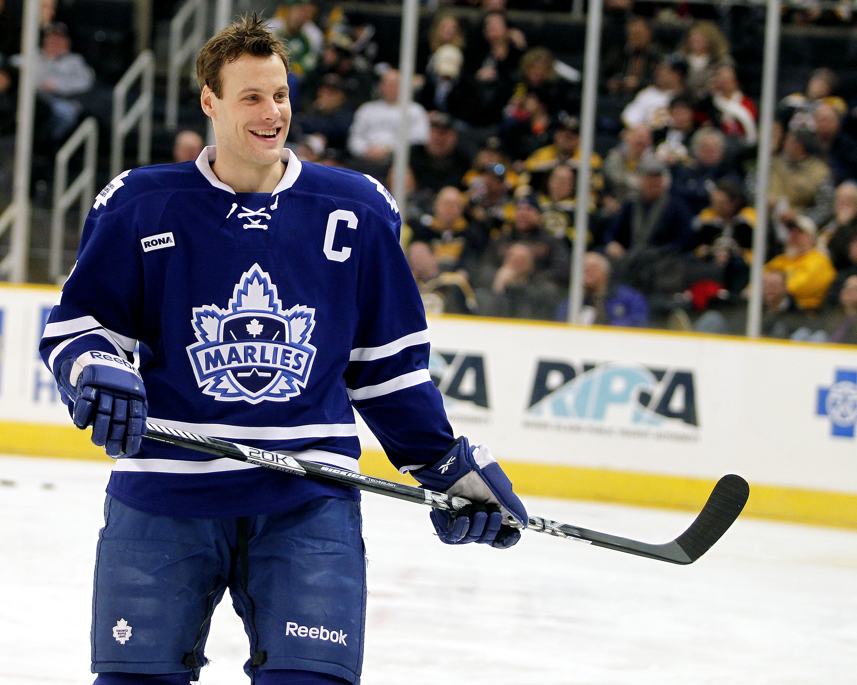 Hamilton4 American Hockey League (AHL). 2013 All-Star Skills Competition. Taken on January 27, 2013.